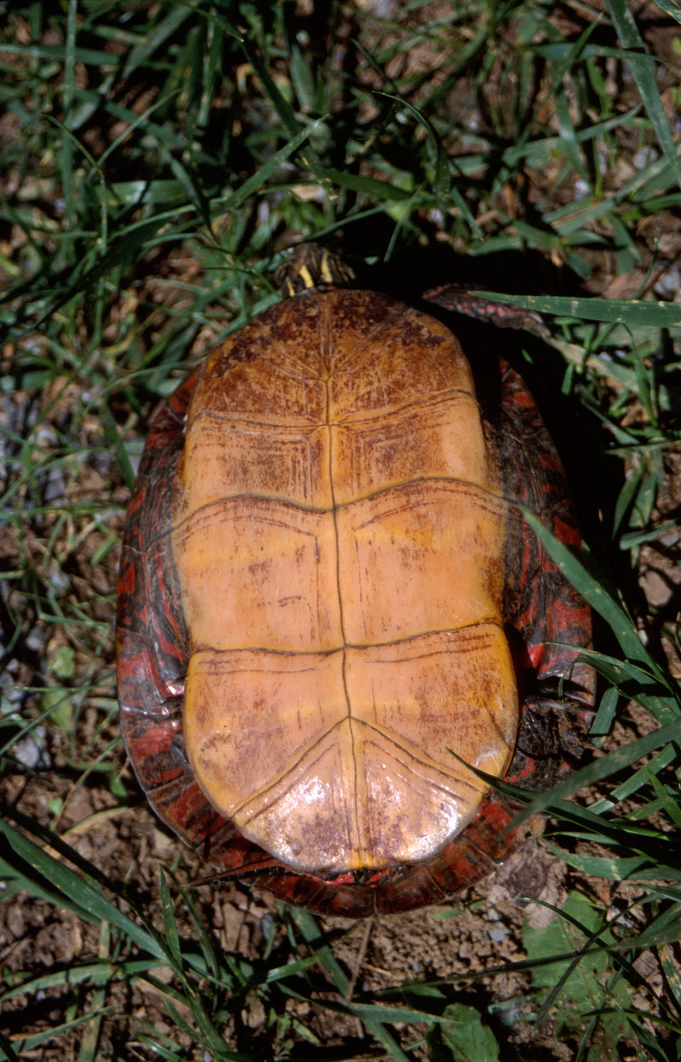 Painted Turtle (Chrysemys picta) - plastron (belly). Virginia, USA.